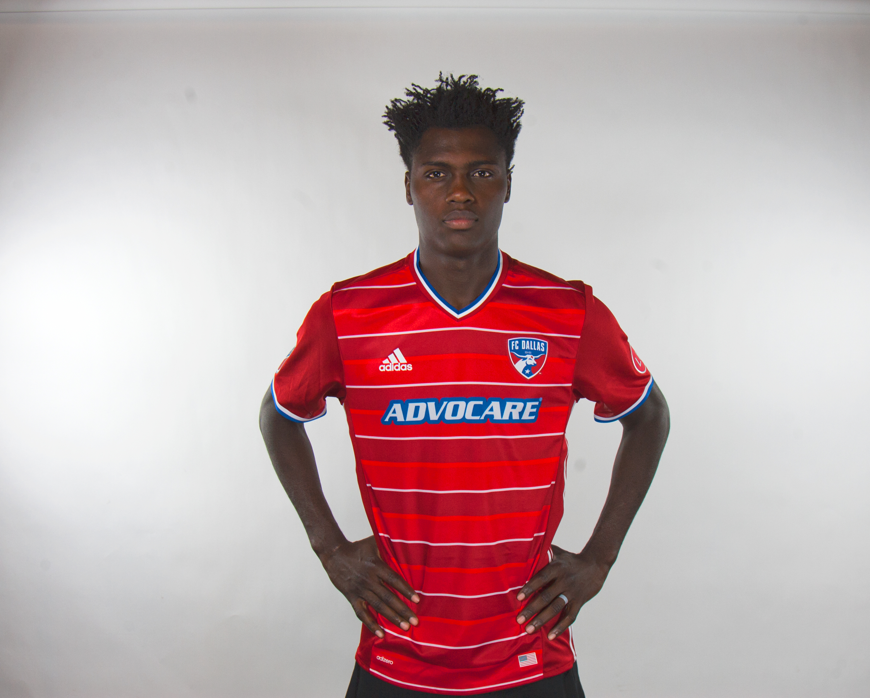 FC Dallas headshot of Aubrey David